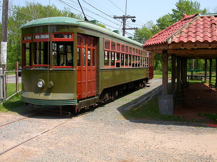 Former New Orleans Car 836 at the Connecticut Trolley Museum, May 2004